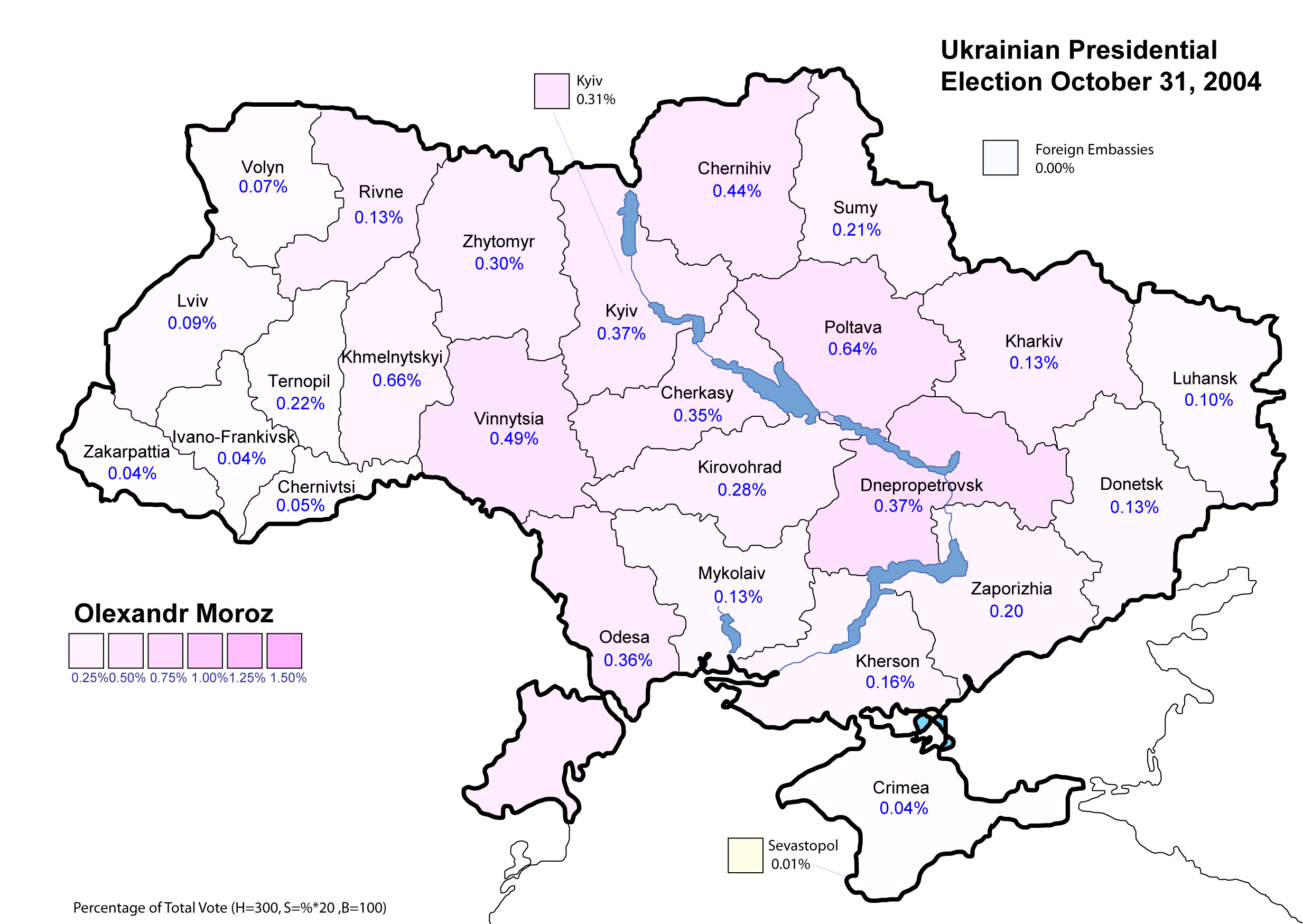 Ukrainian Presidential Election October 2004 - Olexandr Moroz (First Round)